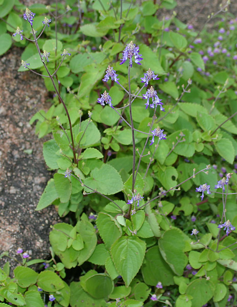 Kapurli Anisochilus carnosus in Hyderabad , India.